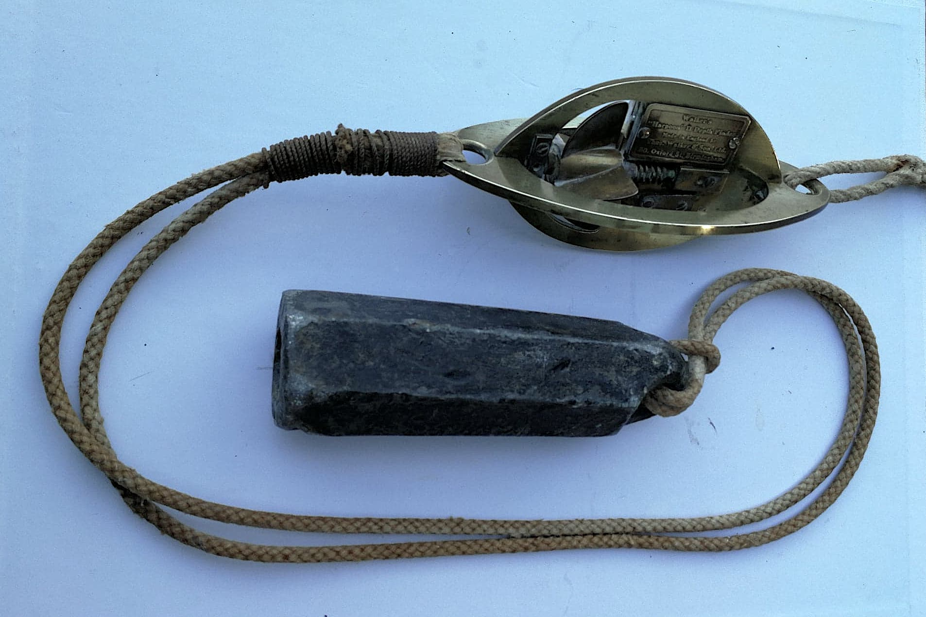 Nautical instrument used to measure the depth of water.